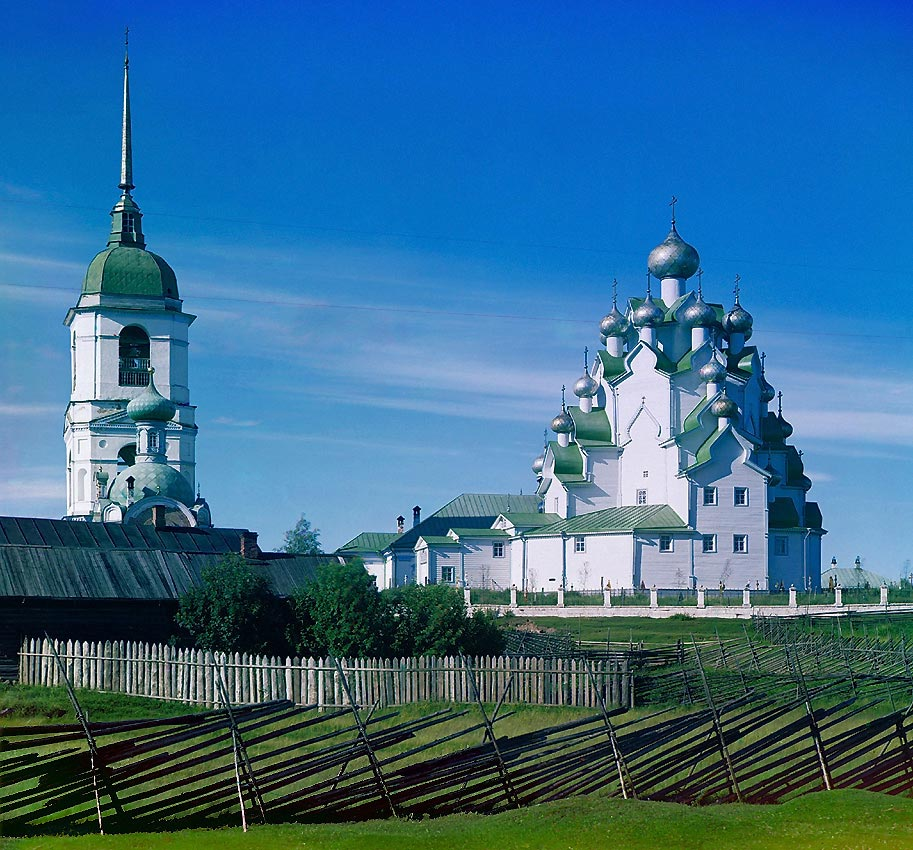 24-domed Intercession church on the Vytegra River was built in wood in 1708 and burnt down to the ground by accident in 1963. It has not been restored so far. This colour photograph by Sergei Mikhailovich Prokudin-Gorskii was taken in 1909.